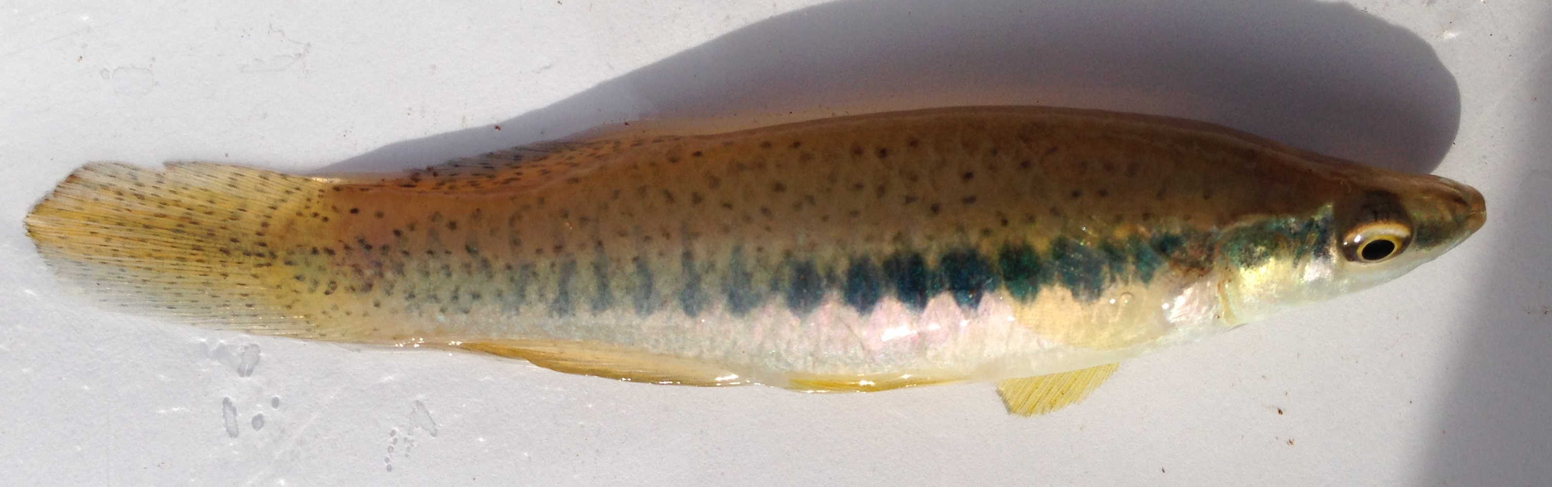 A black-spotted topminnow (Fundulus olivaceus) at the University of Mississippi Field Station.